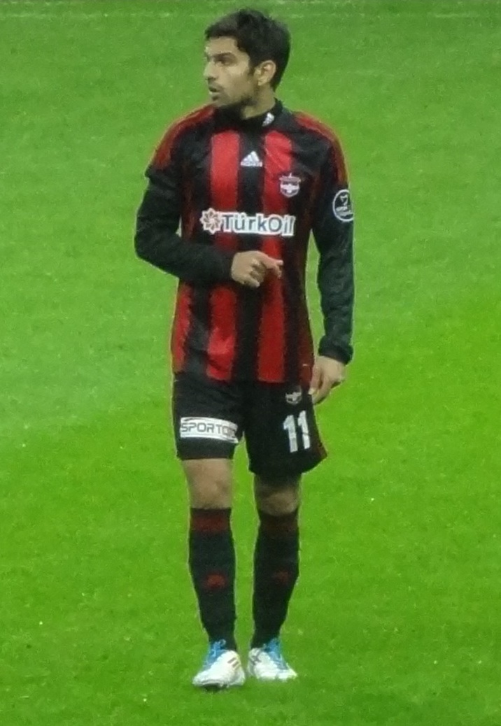 muhammet demir against GALATASARAY he scored 1 goal and his team won 4-2